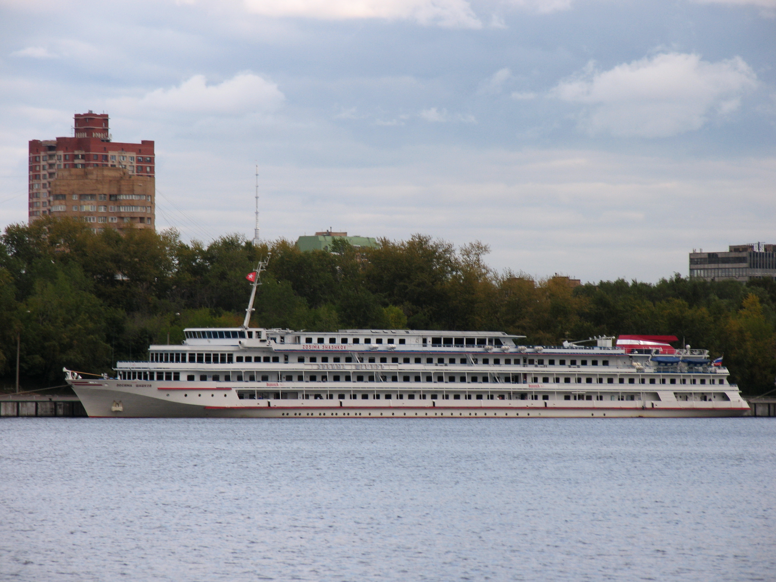 River cruise ship Zosima Shashkov at Nothern River Terminal in Moscow